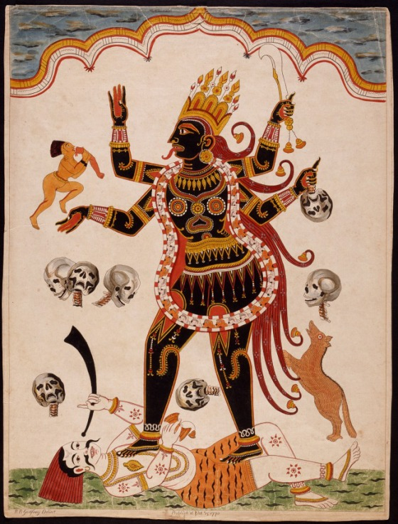 The Goddess Kali, 1770 Print, Colored etching on paper, Sheet: 22 1/4 x 16 3/4 in. (56.52 x 42.55 cm); Image: 21 7/8 x 16 3/8 in. (55.56 x 41.59 cm) Indian Art Special Purpose Fund